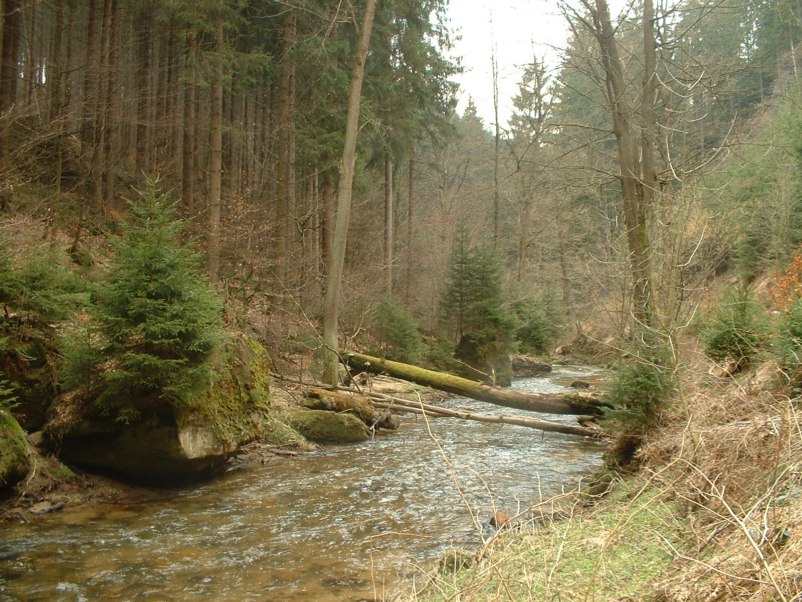 The Kirnitzsch (czech: Křinice) is a river in the Elbe Sandstone Mountains. The river head is in the Czech Republic and the river mouth in Germany.